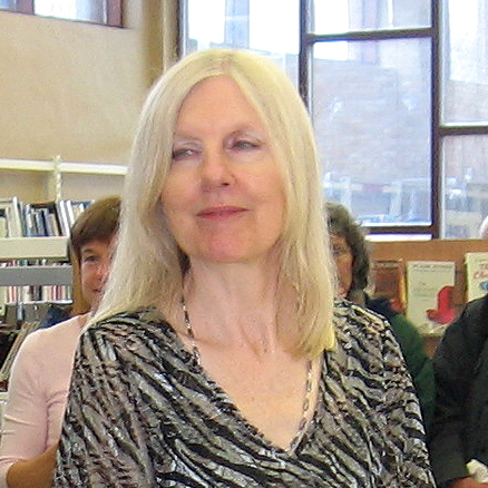 Helen Dunmore, writer and local resident, offered to open the refurbished Henleaze library, Redland, Bristol. April 2008